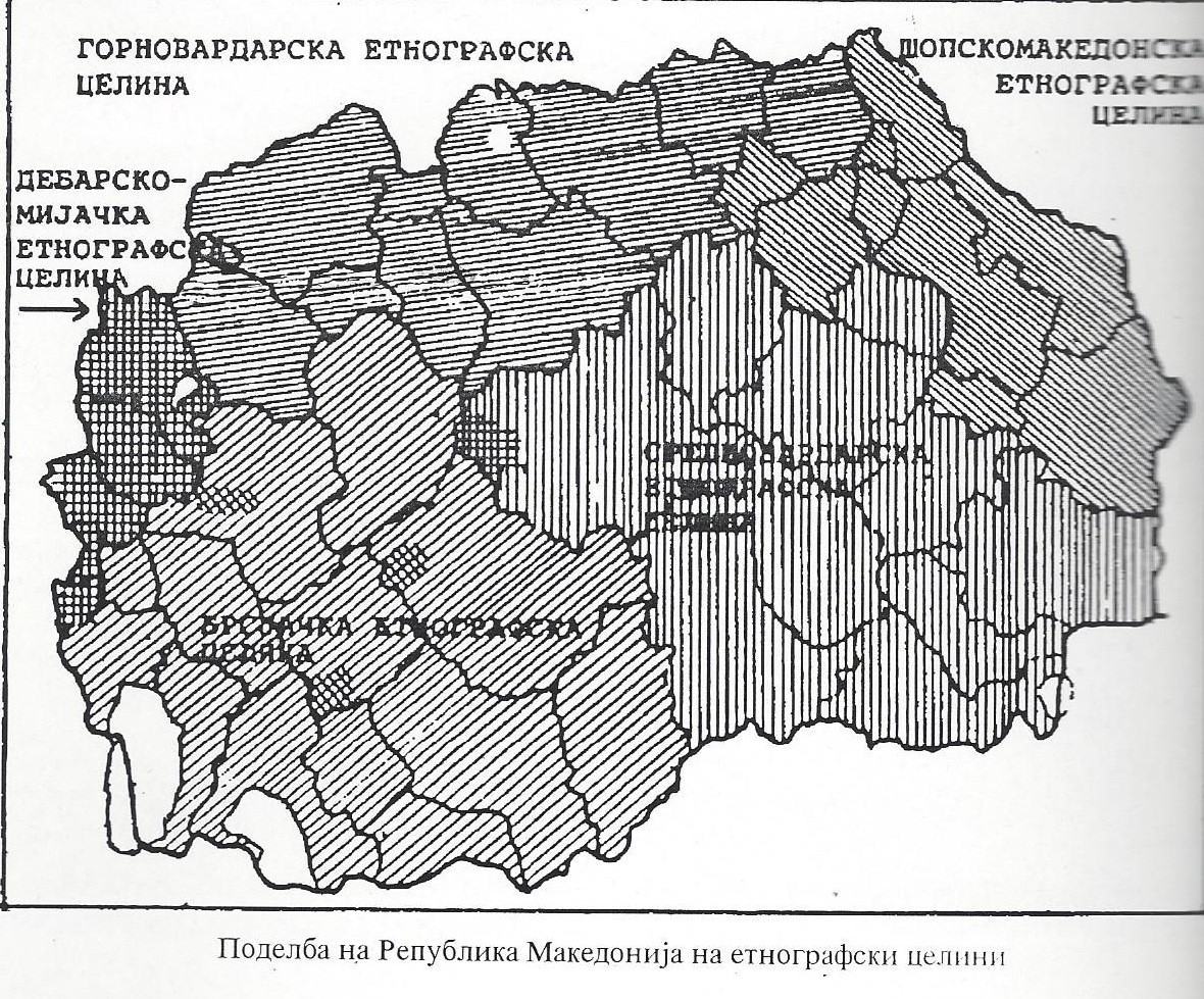 Ethnographic regions of Macedonia